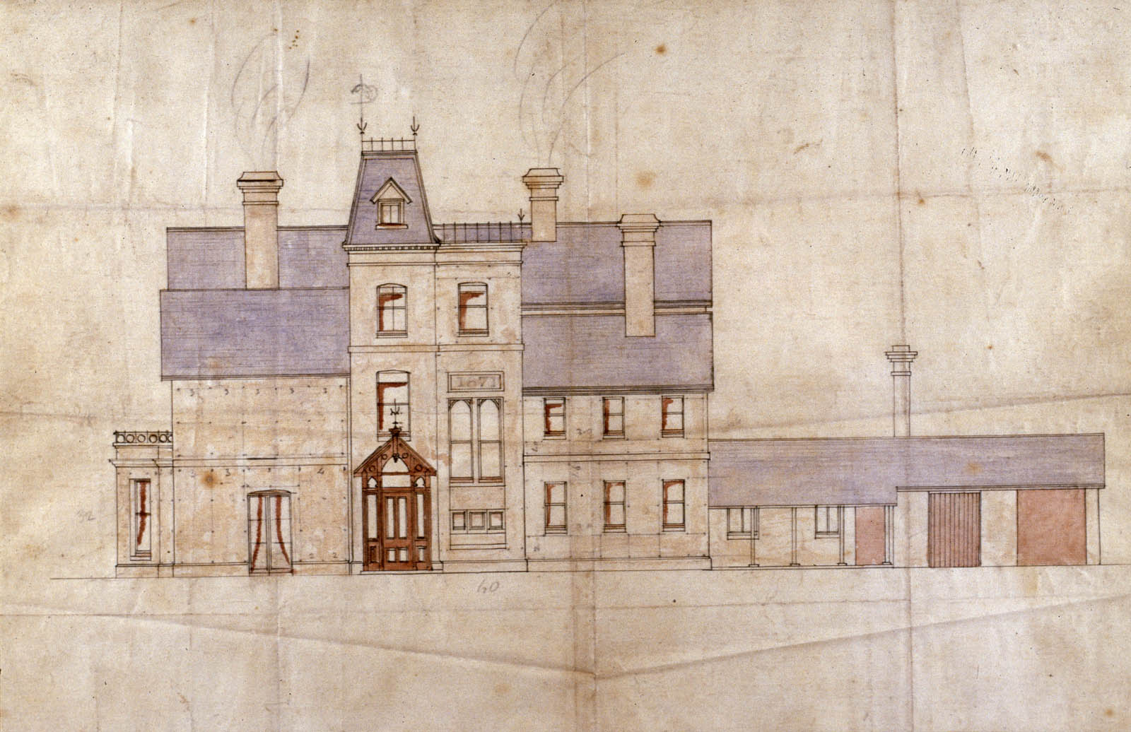 Architectural drawing of The Dell, Grays, Thurrock, Essex by Thomas Robjohns Wonnacott (1834-1918) for Alfred Russel Wallace, 1870